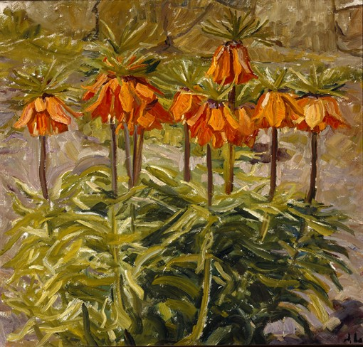 "Kejserkroner", painting by Danish artist Alhed Larsen. Oil on canvas. 64 by 67 cm. Fyns Kunstmuseum.